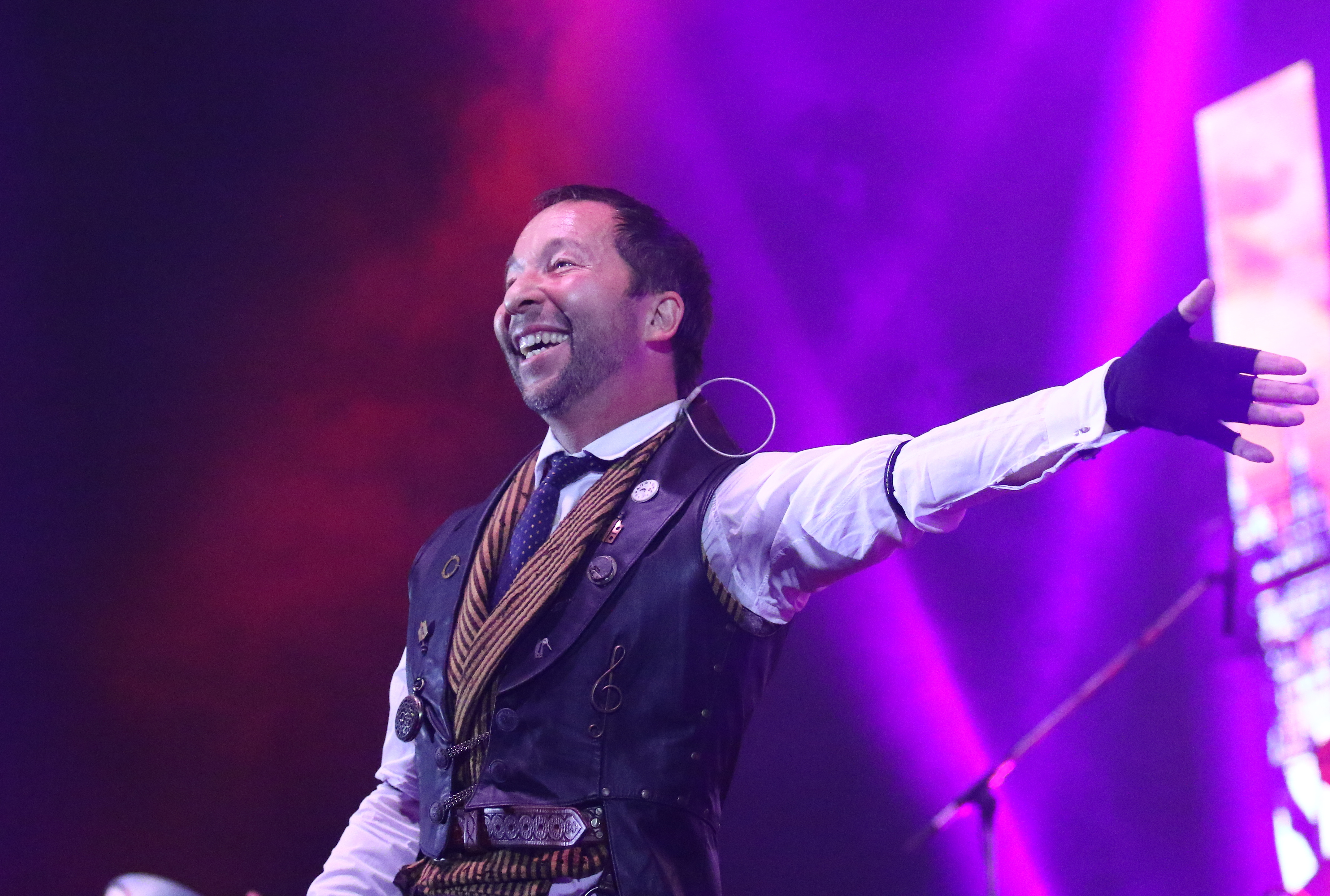 Peter René Baumann (born 5 January 1968), better known as DJ BoBo, is a Swiss recording artist, singer-songwriter, dancer and music producer.[1] He has sold 14 million records worldwide and has released 12 studio albums as well as a few compilation albums which have included his previous hits in a reworked format.[2] DJ BoBo has also released as many as 34 singles to date, some of which have charted high, not only in German speaking countries, but also in other European territories.